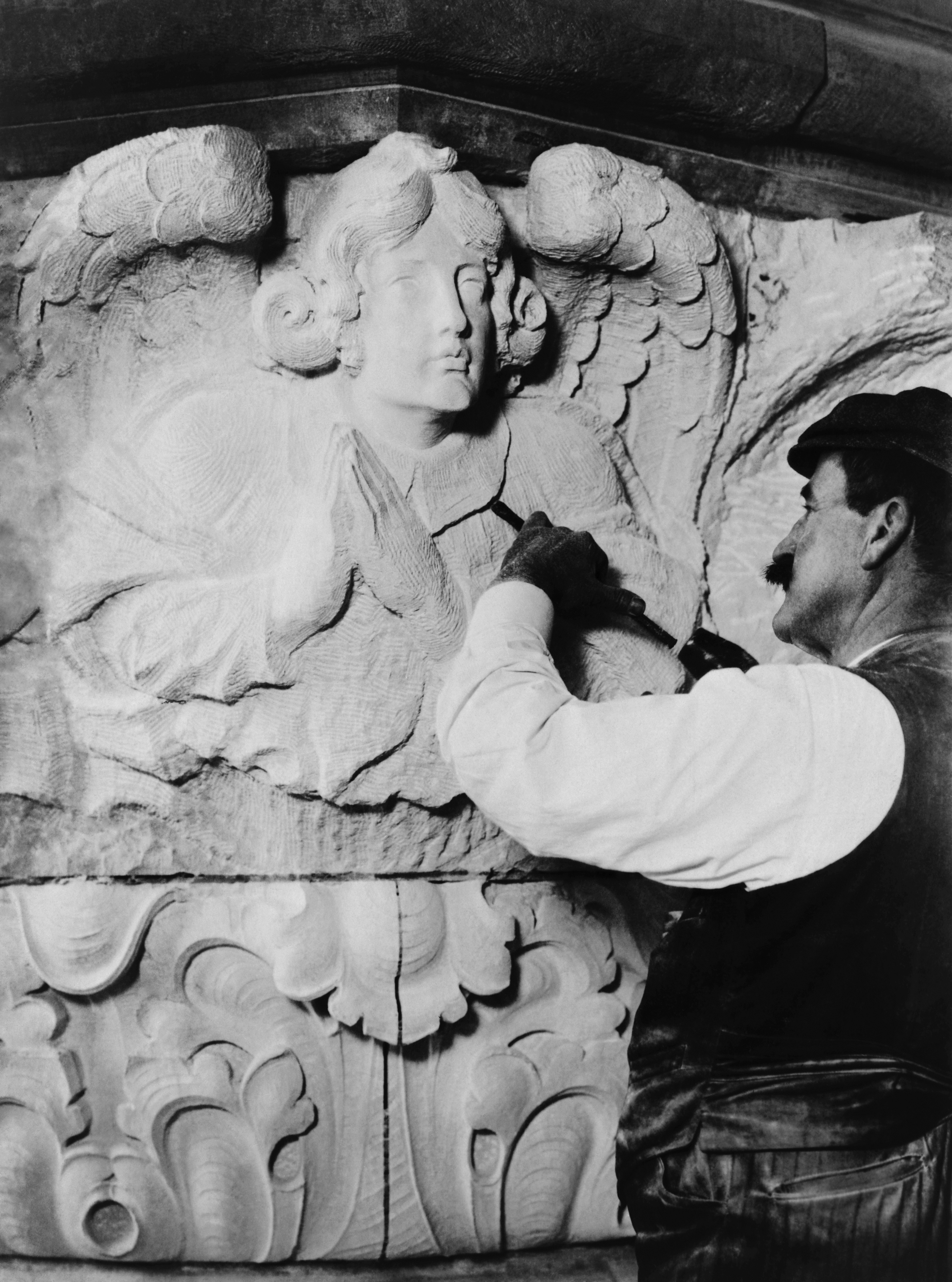 Cathedral of St. John the Divine — A stone sculptor working on a capital with an angel